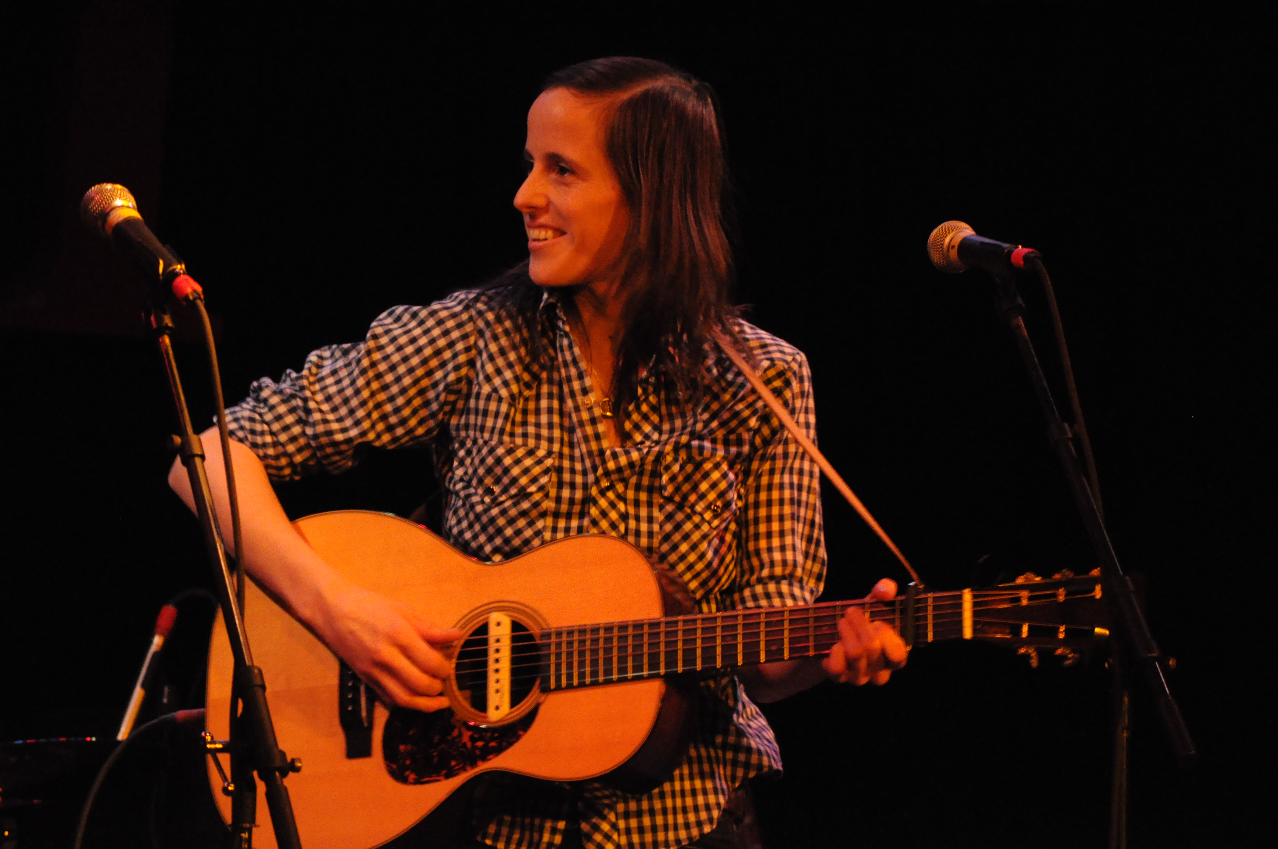 Sera Cahoone performing as part of a tribute to Townes van Zandt on the 67th anniversary of his birth. Tractor Tavern, Ballard, Seattle, Washington.